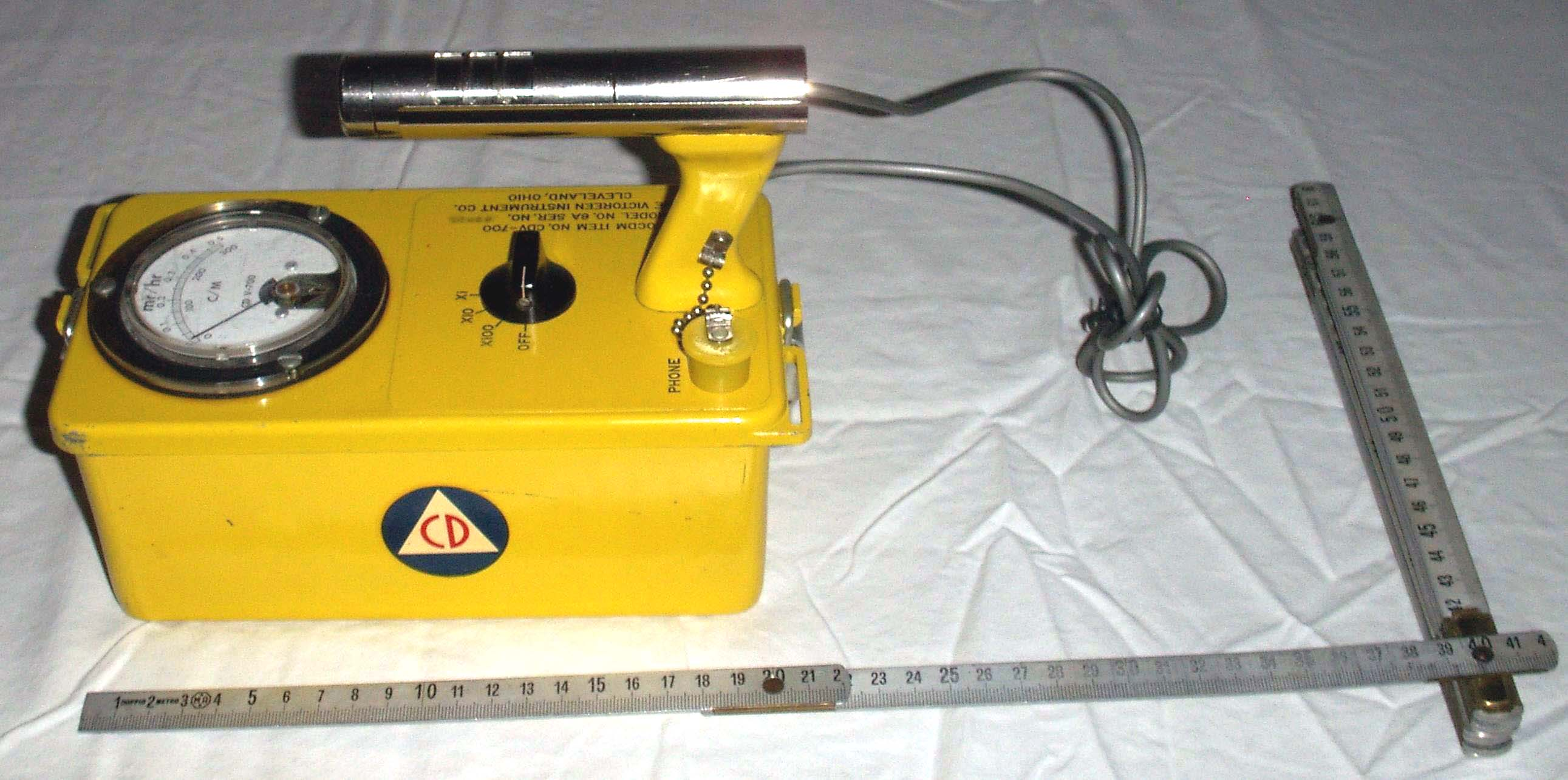 Victoreen Civil Defence V-700 geiger counter side left view